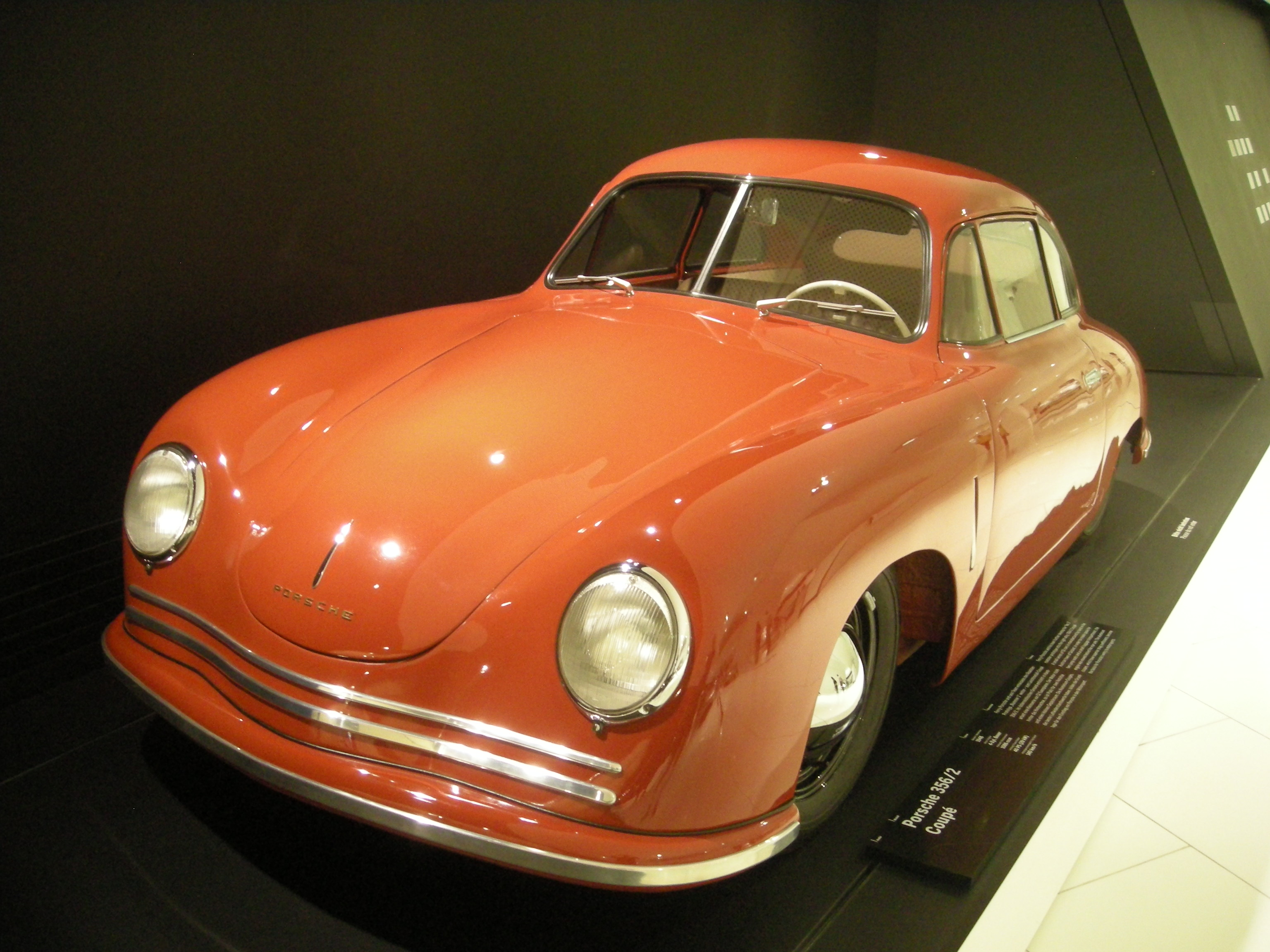 A 1948 Porsche 356/2 Coupe inside the Porsche Museum in Stuttgart, Baden-Württemberg (Germany).